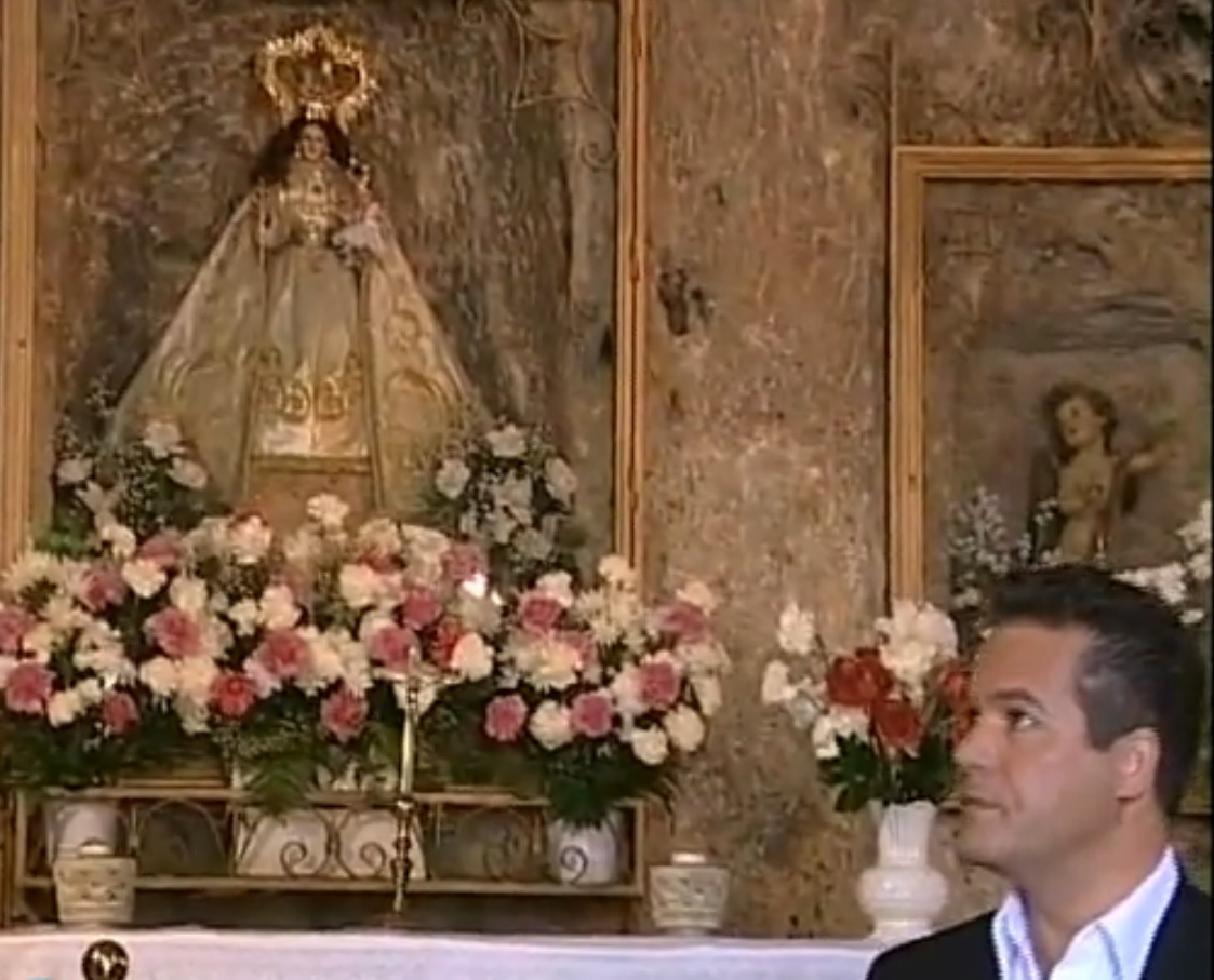 Theo van Cleeff asking for forgiveness